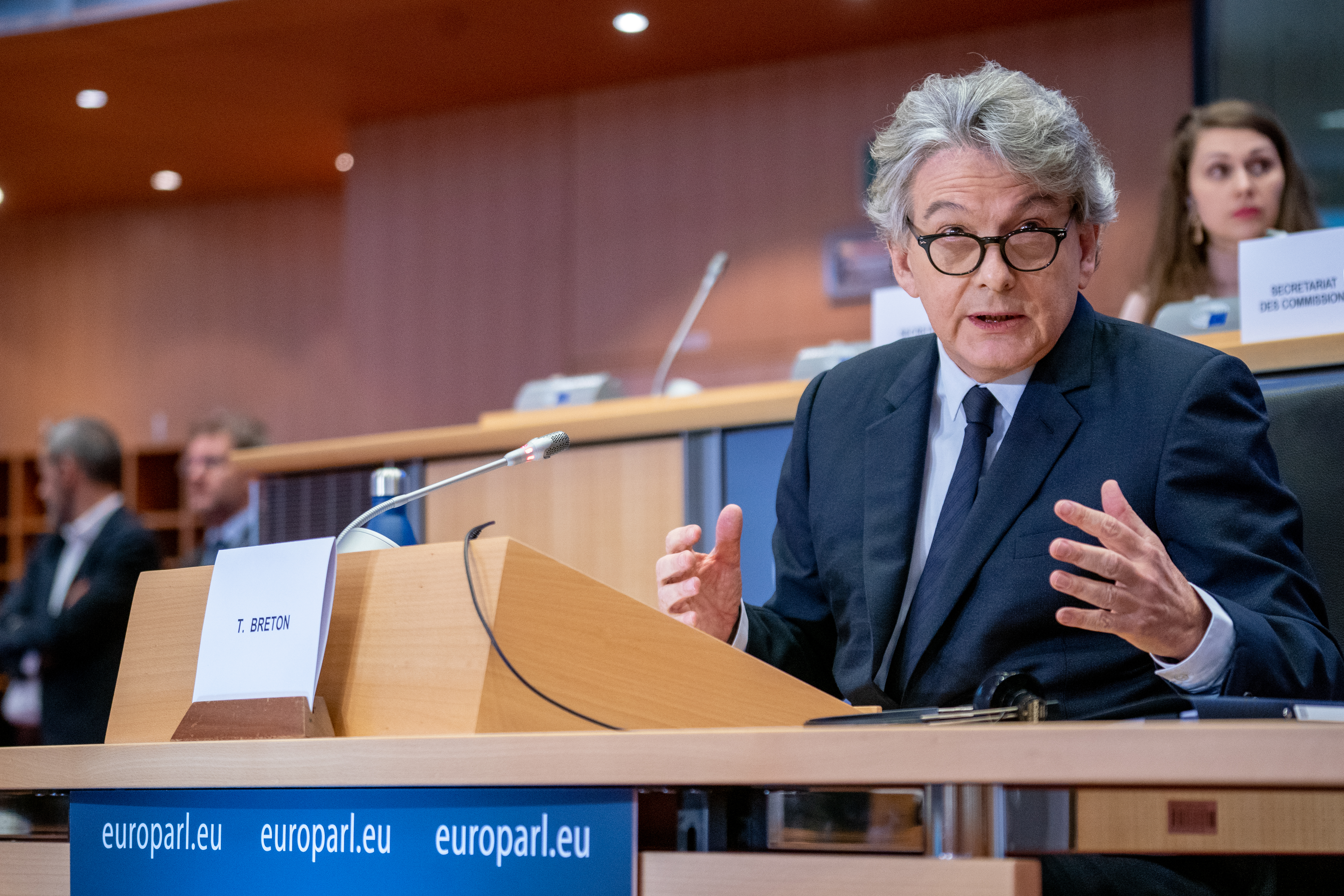 The Internal Market and the Industry committees questioned Thierry Breton, candidate for the Internal Market portfolio. The presidents and political groups’ coordinators from both committees will meet at 17.00 to assess the performance of the Commissioner-designate. Digital, environmental and social challenges In his introductory speech, Mr Breton spoke of the digital, environmental and social challenges the EU is facing and how he plans to address them during his mandate. The digital transformation and climate change will be high on his agenda, in line with President-elect Ursula von der Leyen’s priorities. Mr Breton said that 5G, blockchain, Artificial Intelligence, cybersecurity, cloud and quantum technologies would enable the EU to be a “key industrial player”. He defended “ambitious industrial policies”, which should also be socially responsible, in order “not to leave anyone behind”. Read more: This photo is free to use under Creative Commons license CC-BY-4.0 and must be credited: "CC-BY-4.0: © European Union 2019 – Source: EP". No model release form if applicable. For bigger HR files please contact: webcom-flickr(AT)